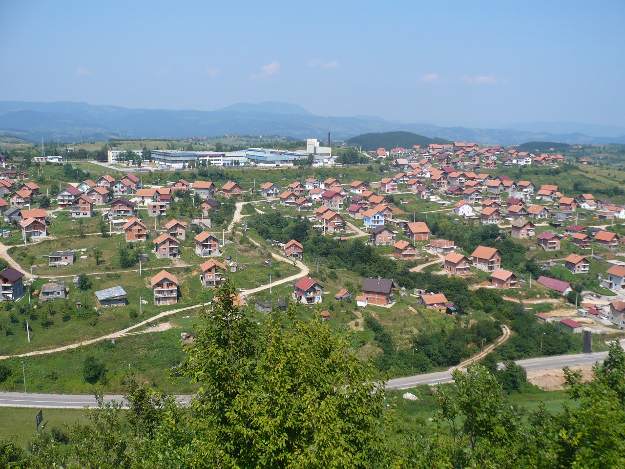 New Vlasenica around Alpro.